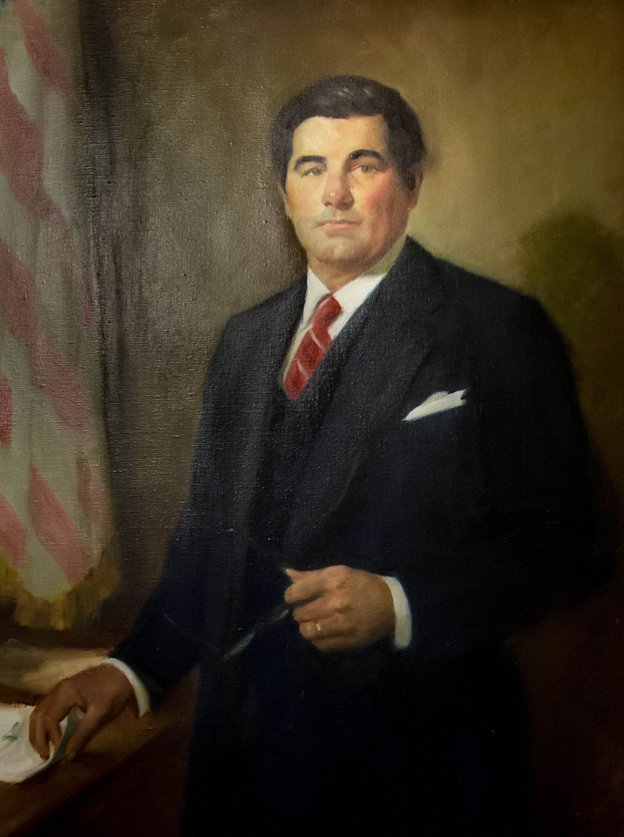 Official portrait in the Rhode Island State House.